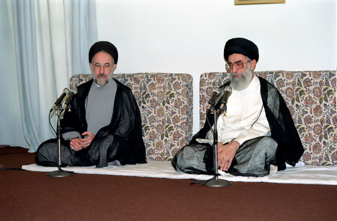 Visitation of President Khatami and Cabinet with Supreme Leader of Iran, Ali Khamenei - August 24, 1997 (2)